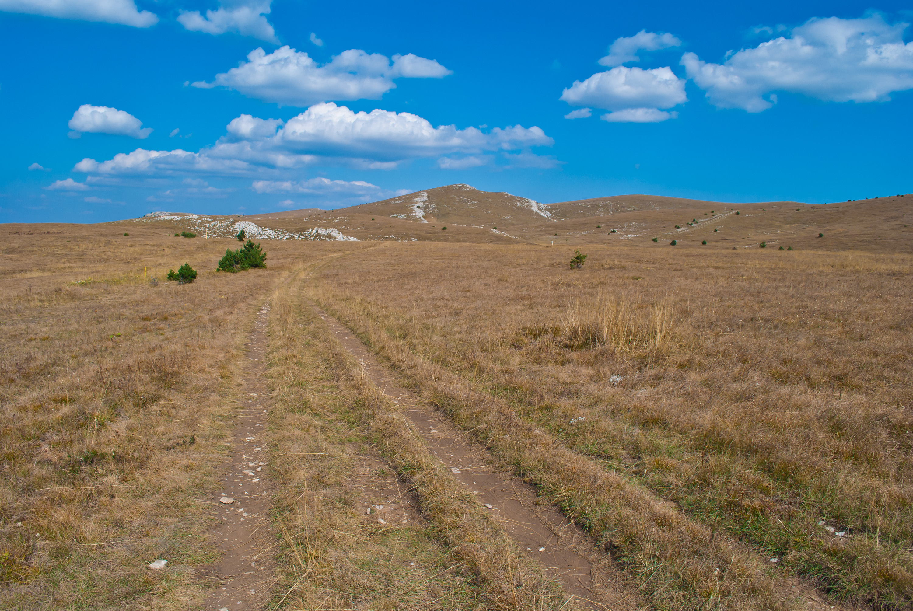 Mount Demir-Kapu in Crimea.